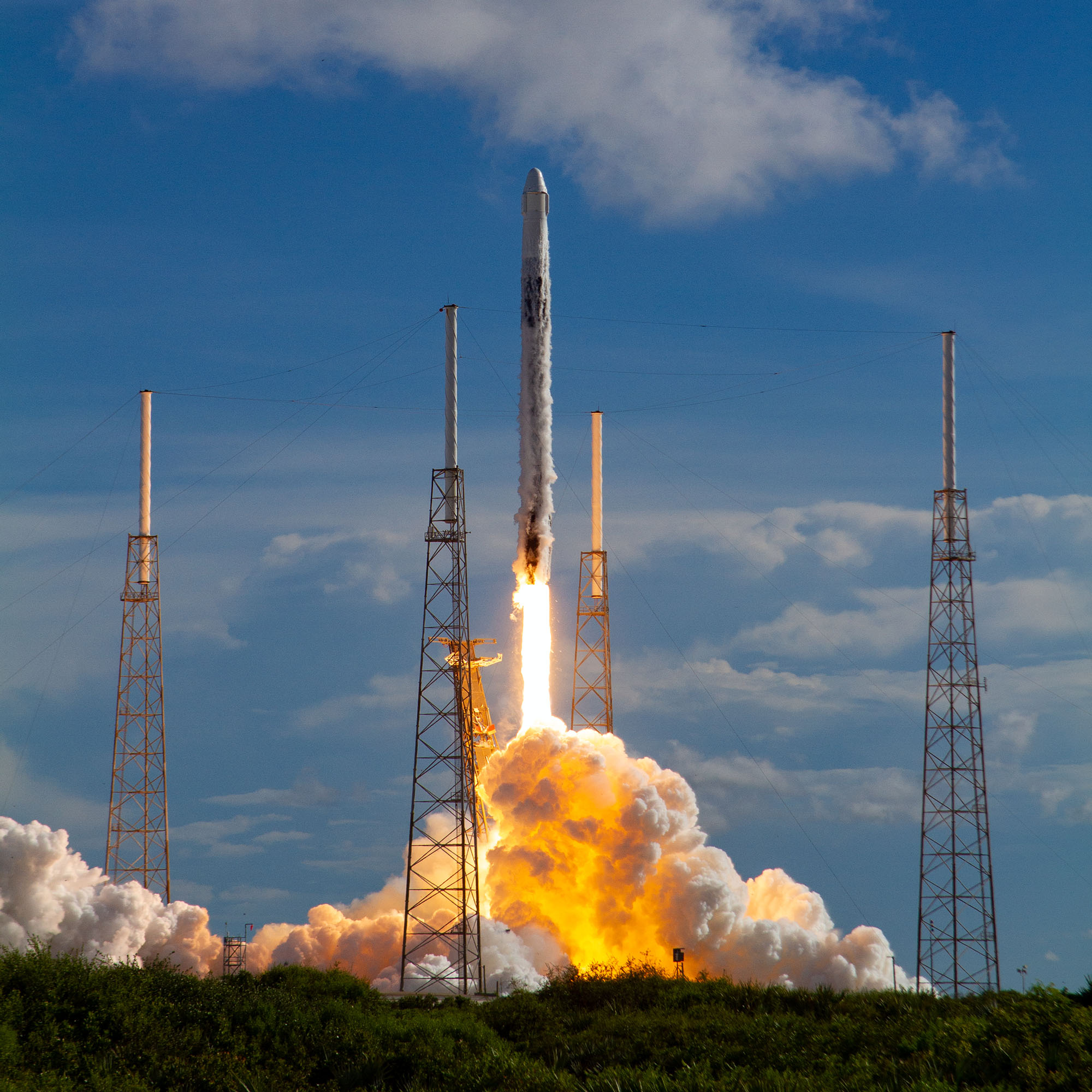 CRS-18 Mission